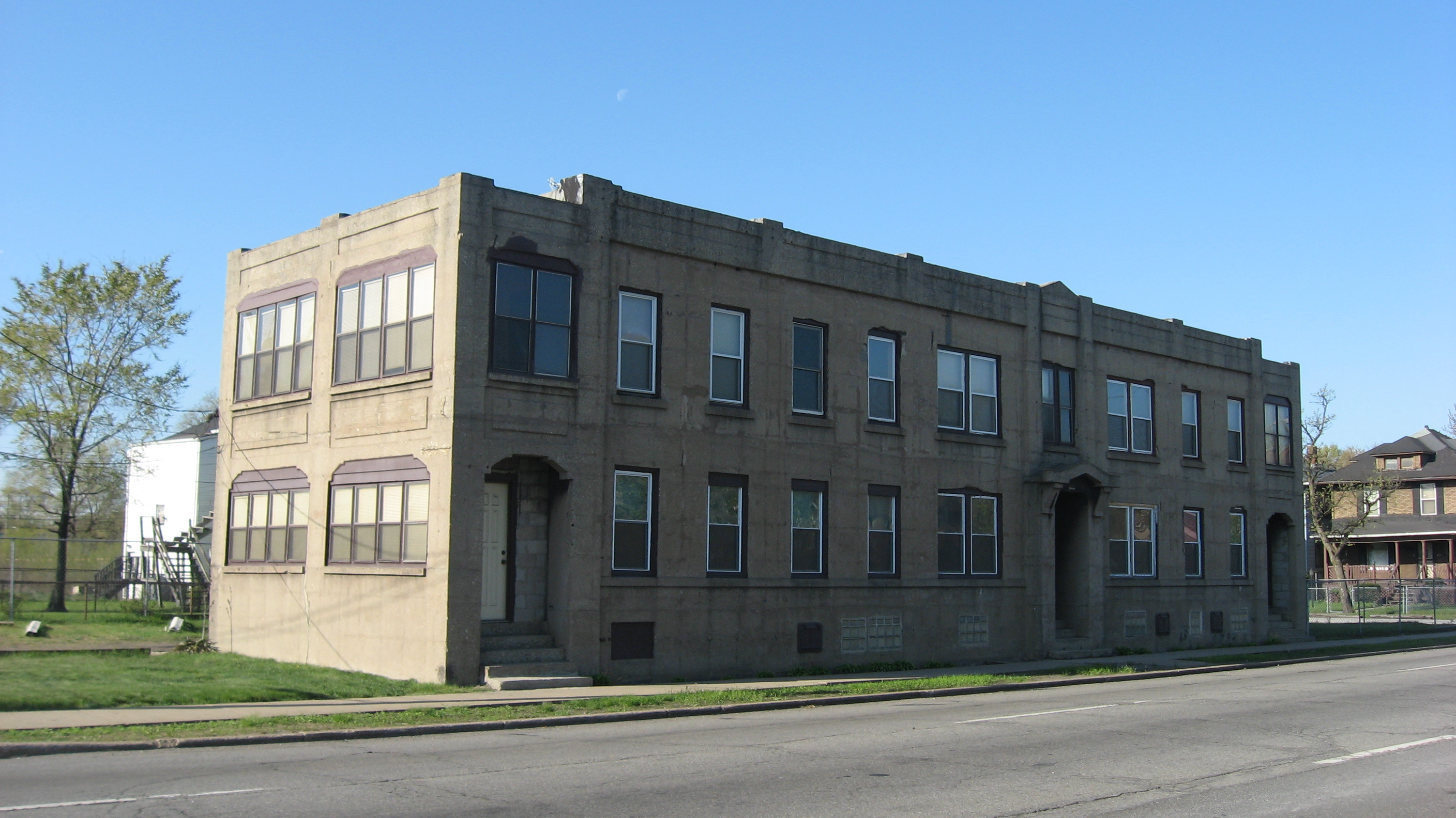 Front and eastern end of the American Sheet and Tin Mill Apartment Building, located at 633 W. Fourth Avenue (U.S. Routes 12/20) in Gary, Indiana, United States. Built in 1910, it is listed on the National Register of Historic Places.